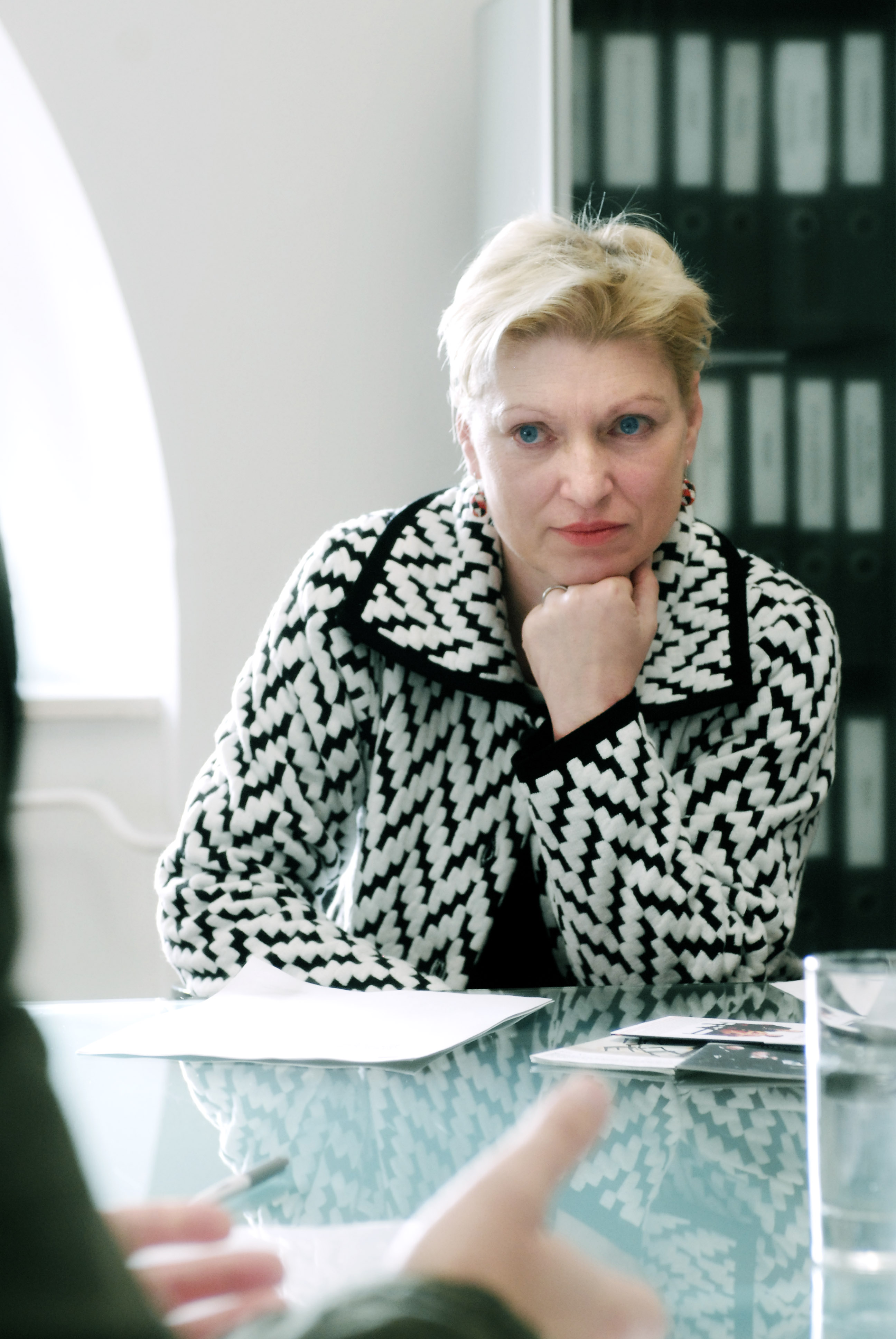 Karin Bergmann